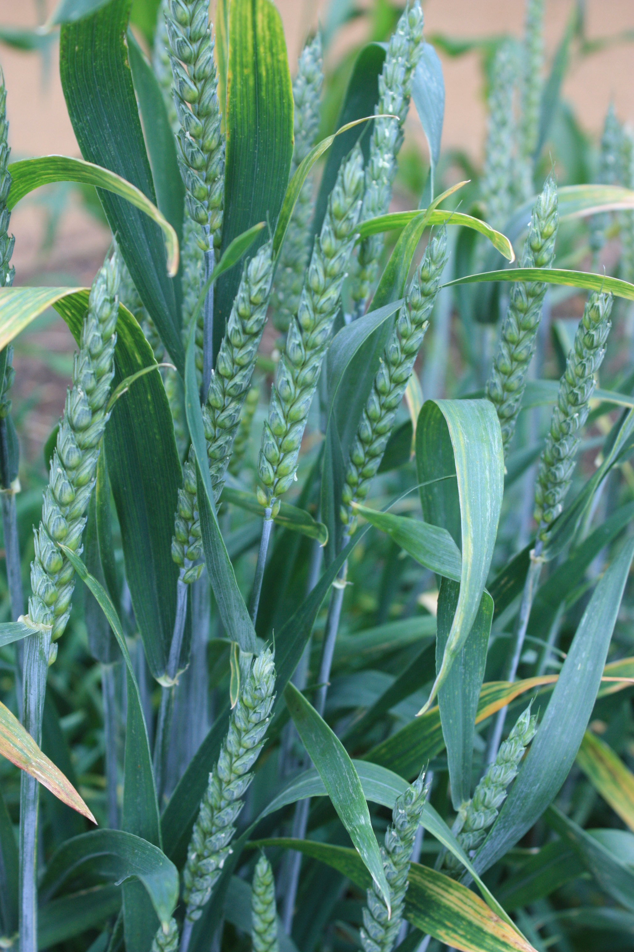 Green wheat a month before harvest